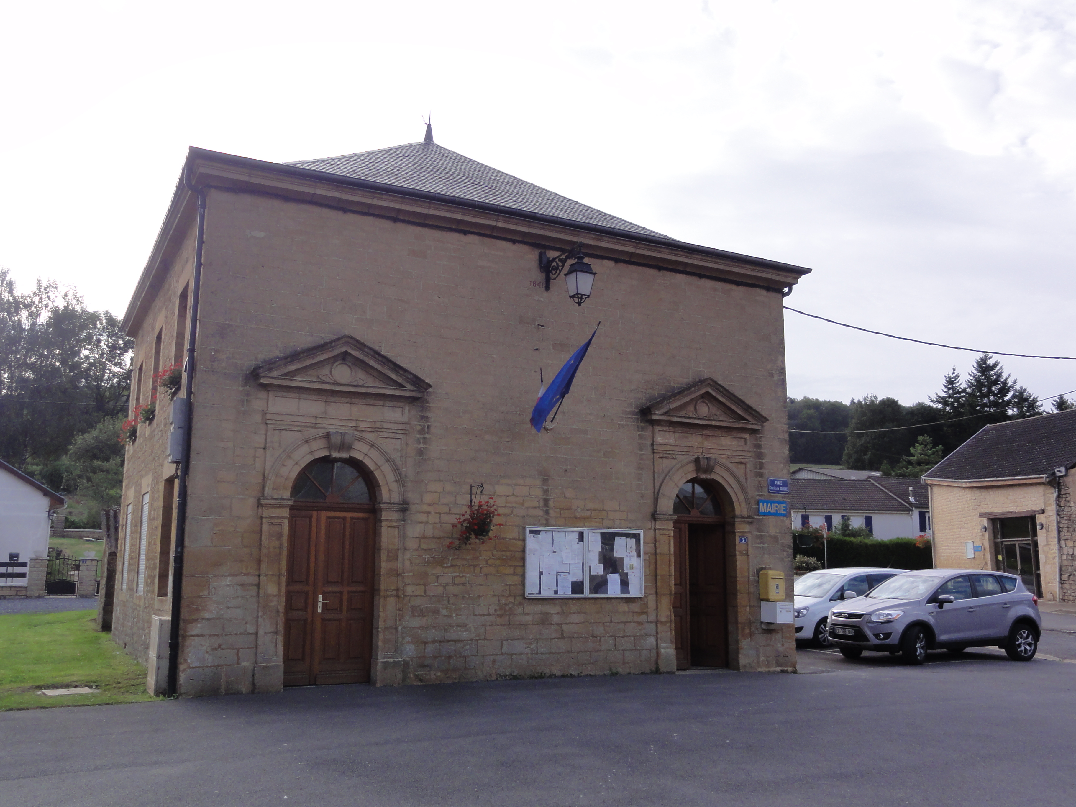 Fagnon (Ardennes) mairie